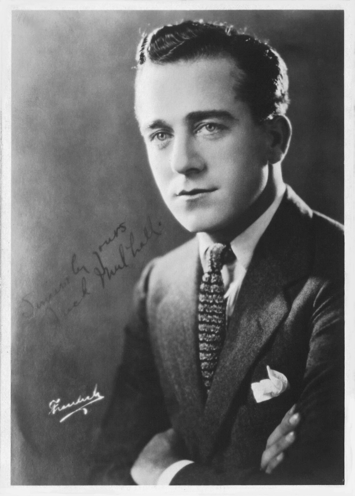 Autographed promotional portrait of American actor Jack Mulhall (1887–1979) by American photographer Jack Freulich.